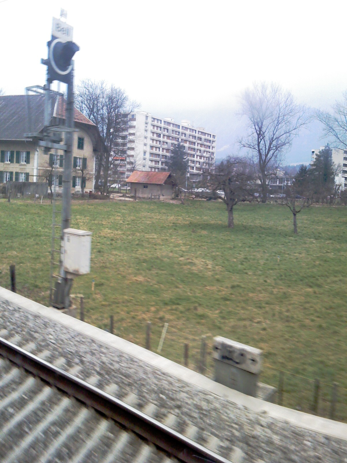 Bellach in the Swiss canton of Solothurn, seen from the train